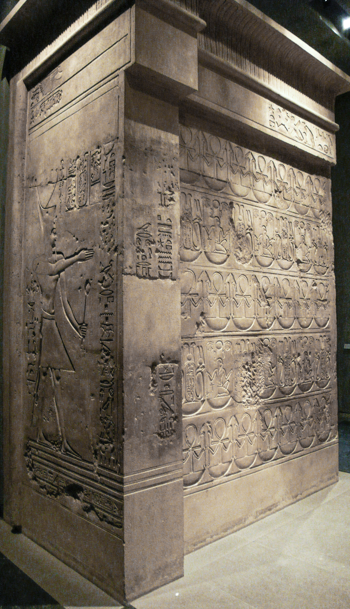 Doorway of Temple of Medamud, Ptolemy IV, circa 221-205 BC. Sandstone. Musée des Beaux-Arts de Lyon. France.